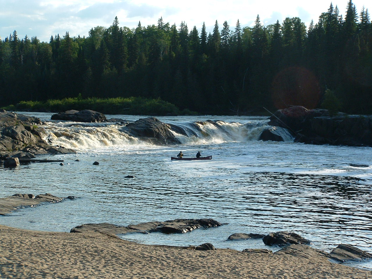 Glassy Falls on Missinaibi River, photo taken on the canoe trip